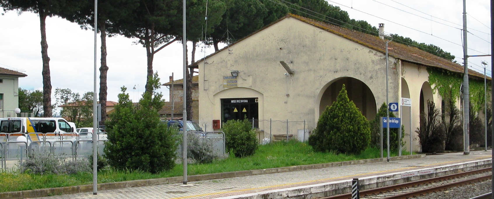 Castiglion del Lago railway station, freight yard.